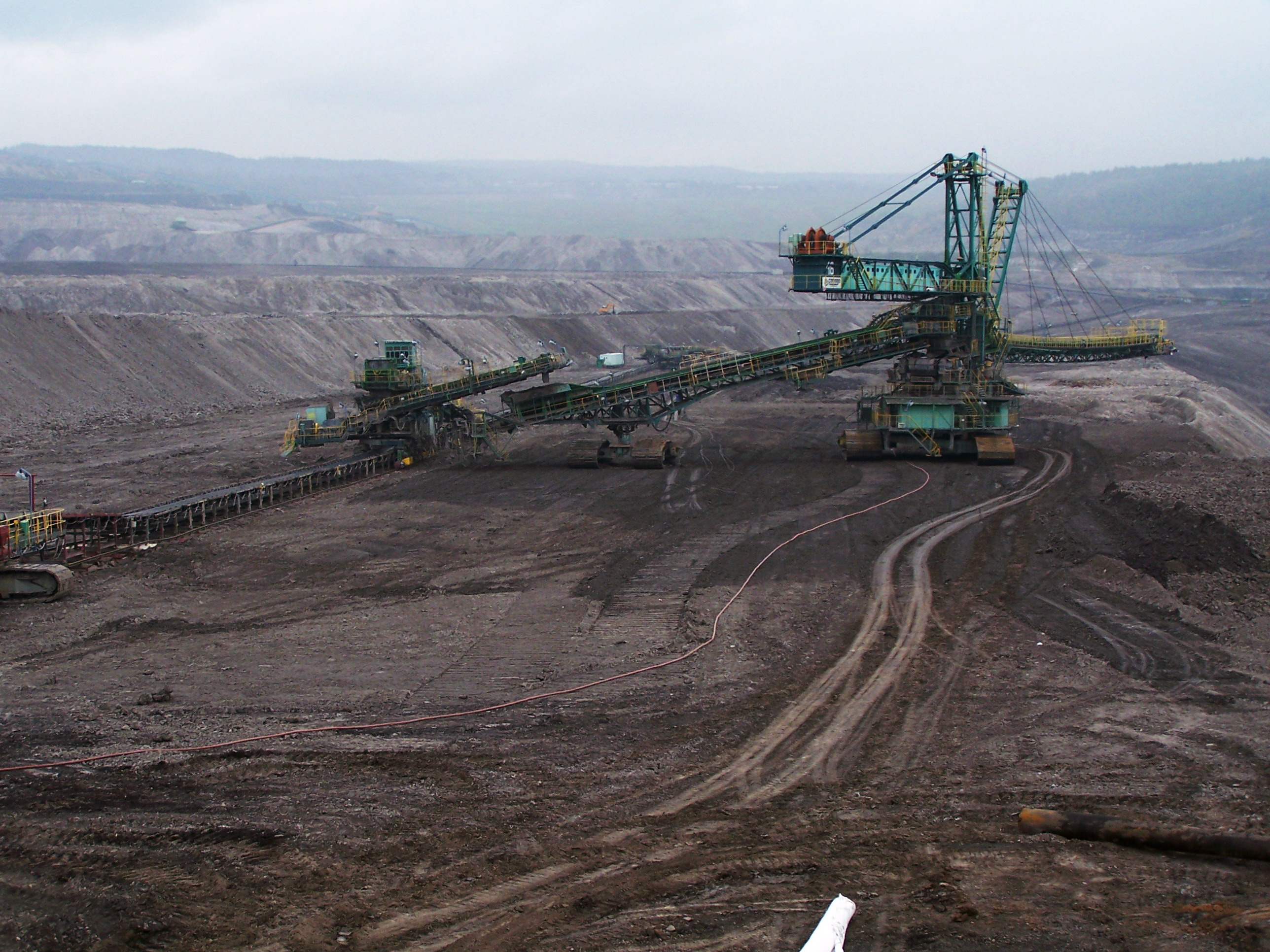 Stacker in polish lignite mine, KWB Turów